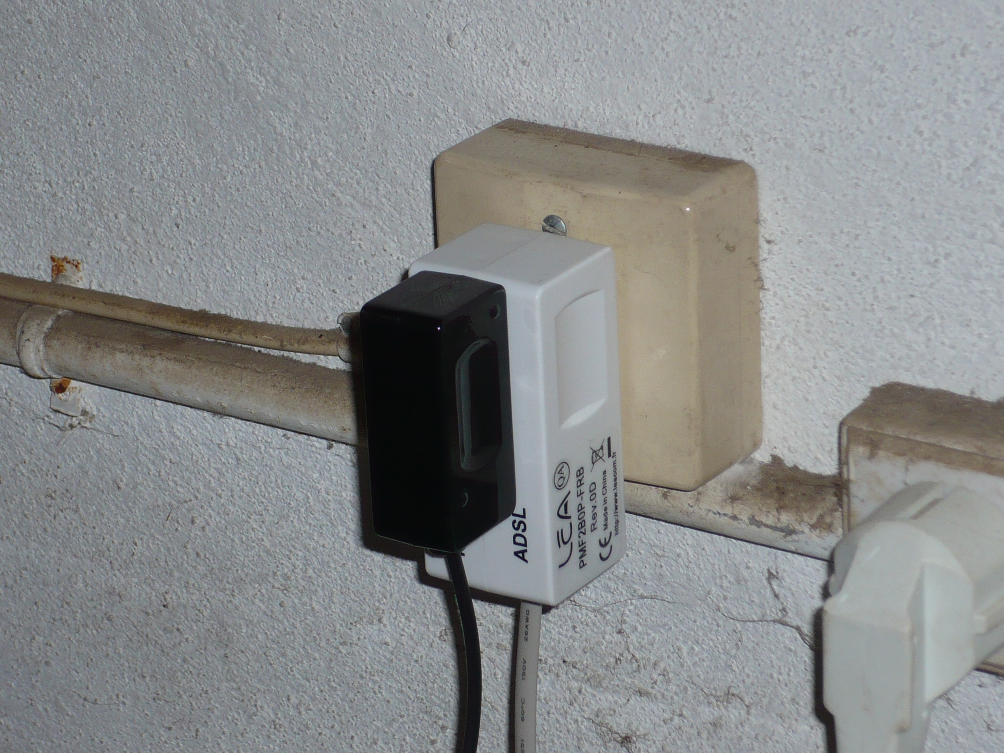 French ADSL filter plugged in a wall socket, with a french phone plug piggy-backed